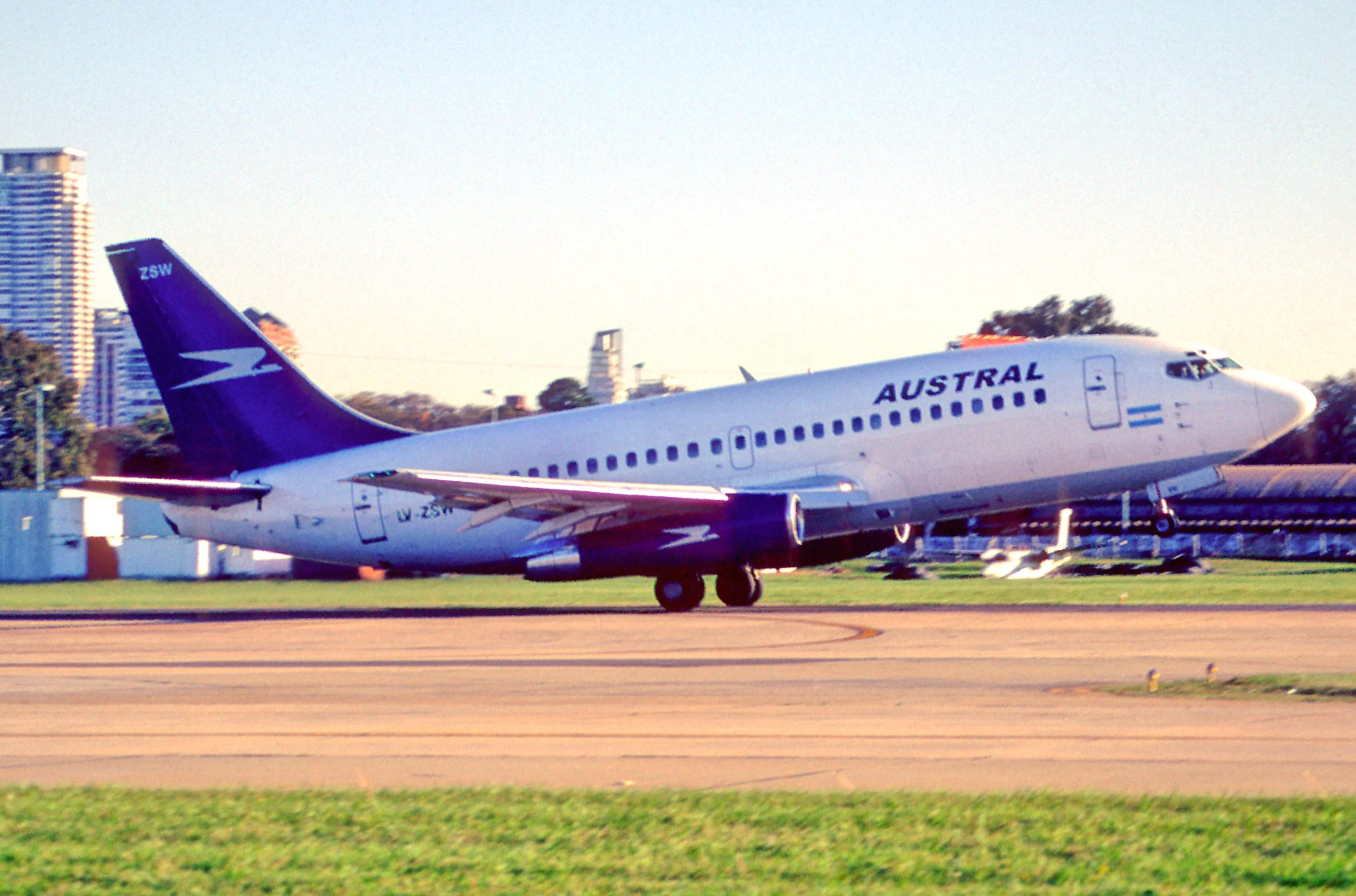 319bo - Austral Boeing 737-200; LV-ZSW@AEP;22.09.2004